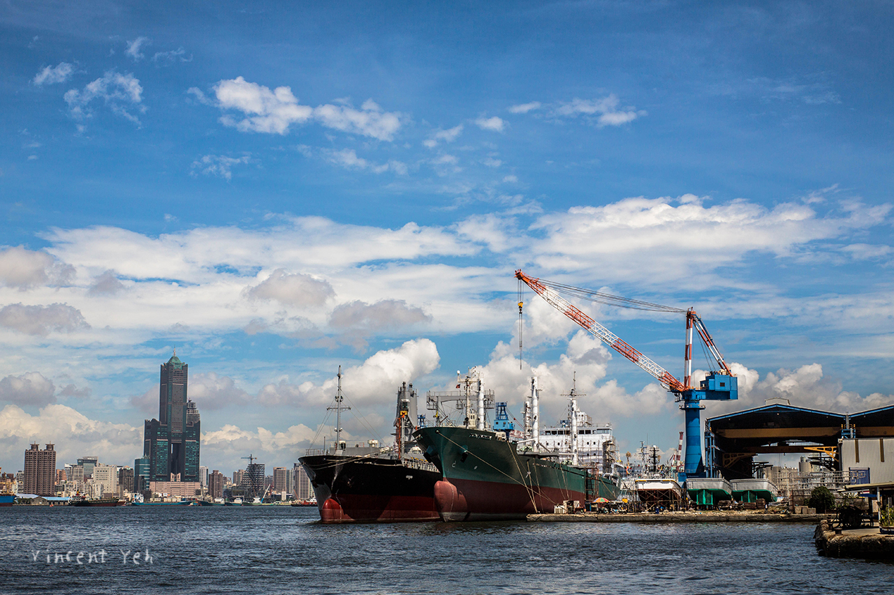 View of skyline of Kaohsiung harbour in 2018. The ship Yun Der is under construction at Jade Shipbuilding in the foreground, and the ship Delphin is next to it, under refurbishment.